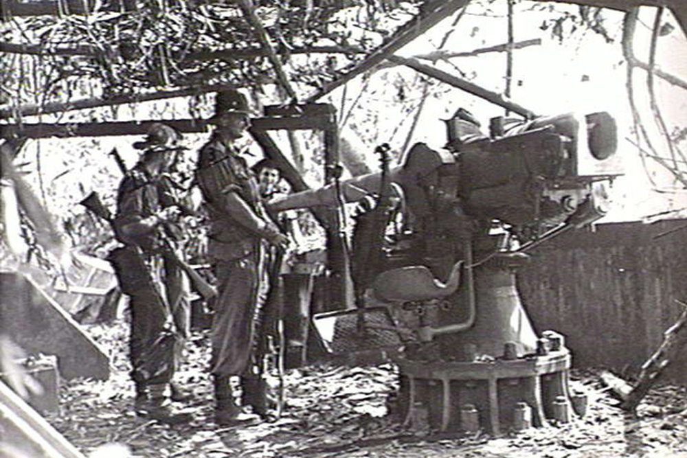 The Dutch coastal battery of two 7,5cm Krupp Essen 1913 at Peningki (Tarakan).Captured by the Japanese in 1942, it was recaptured by the Australians in May 1945.